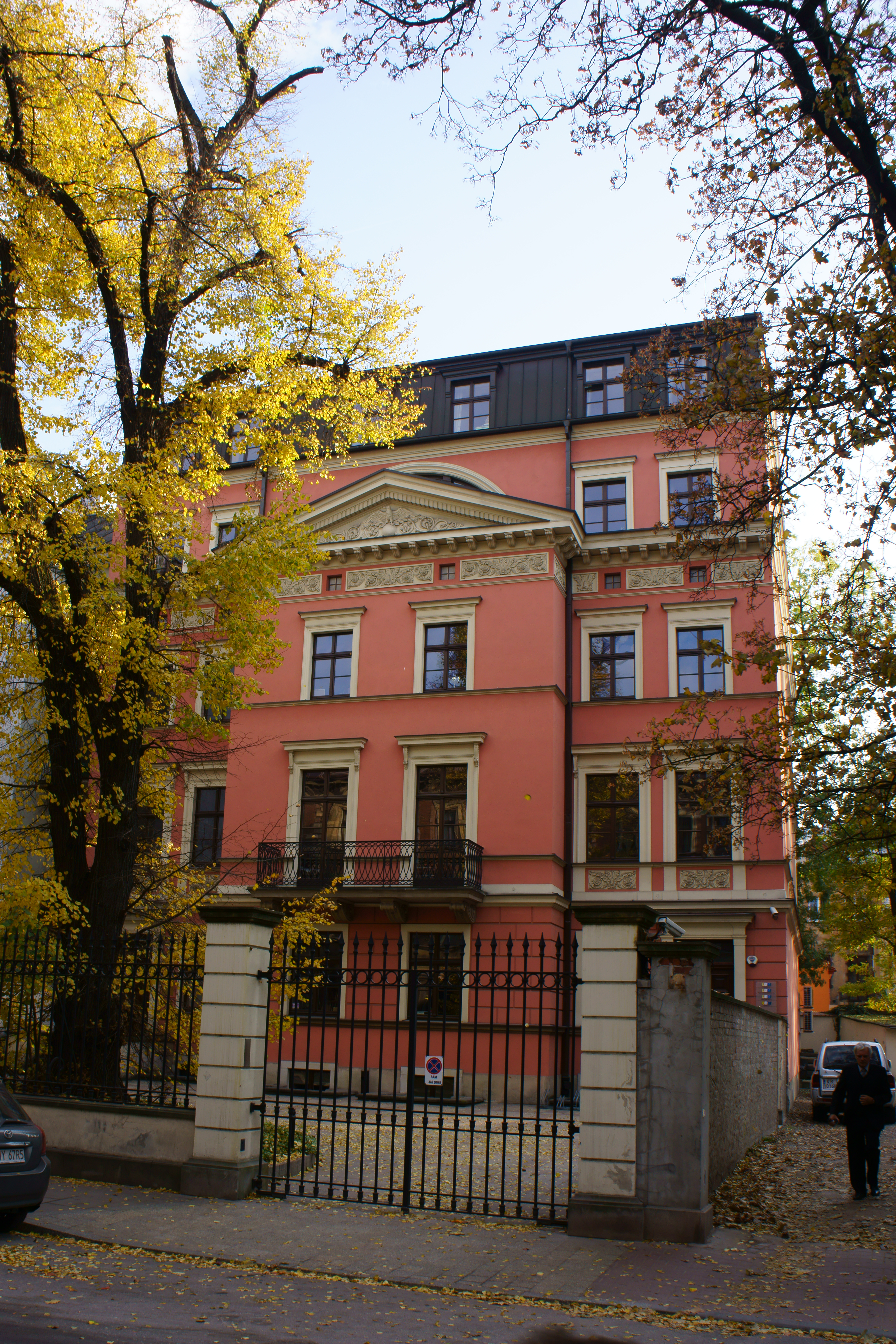 tenement house Krupnicza Street 16 in Kraków